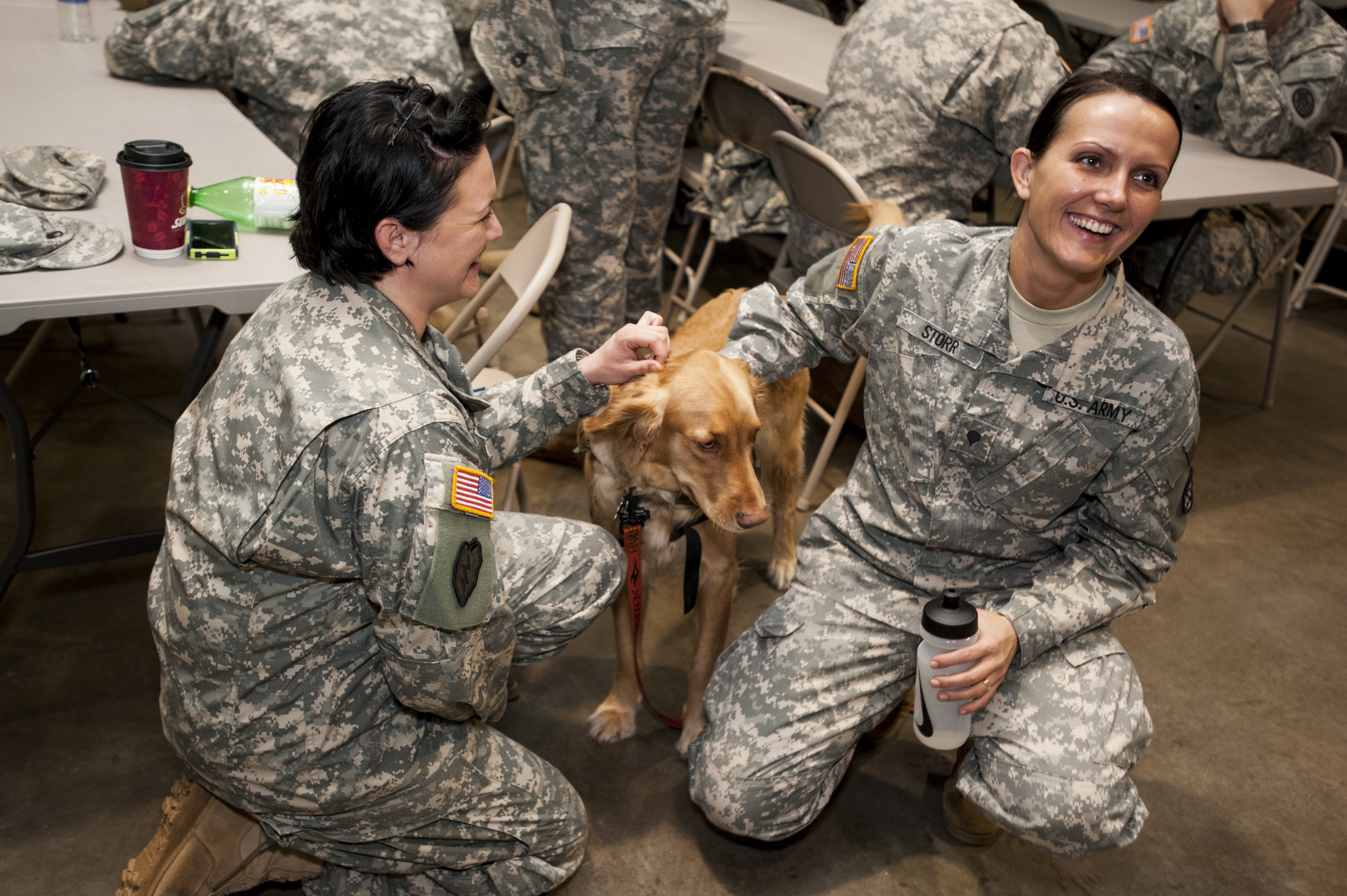 Sgt. 1st Class Meredith Kiser, left, and Spc. Natalia Storr, both with the North Carolina National Guard’s Headquarters and Headquarters Company, 130th Maneuver Enhancement Brigade, kneel on the ground and pet Rosco, a post-traumatic stress disorder companion animal at their unit in Charlotte, N.C., Jan. 11. Rosco’s handler, Sgt. 1st Class Jason Syriac, a military police officer with HHC, 130th MEB, brought the dog with him to the unit to raise awareness of the benefits a companion animal can bring to service members with PTSD. (U.S. Army National Guard Photo by Staff Sgt. Mary Junell, 130th Maneuver Enhanced Brigade Public Affairs/Released)